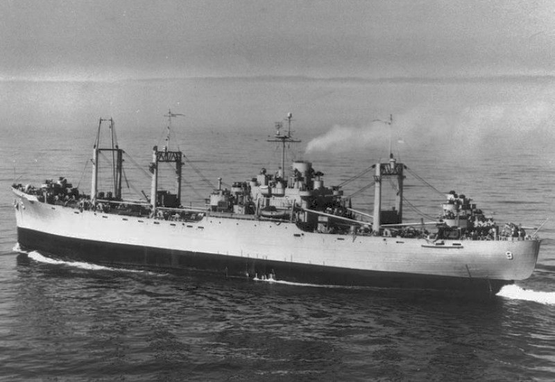 The U.S. Navy ammunition ship USS Mazama (AE-9) underway, circa in the early 1950s.